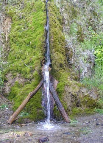 Itkar waterfall near Itkar village on coast of Tom River in Yashkino district, Kemerovo Oblast, Russia